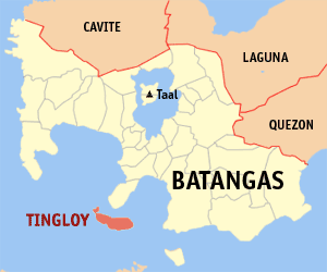 Map of Batangas showing the location of Tingloy